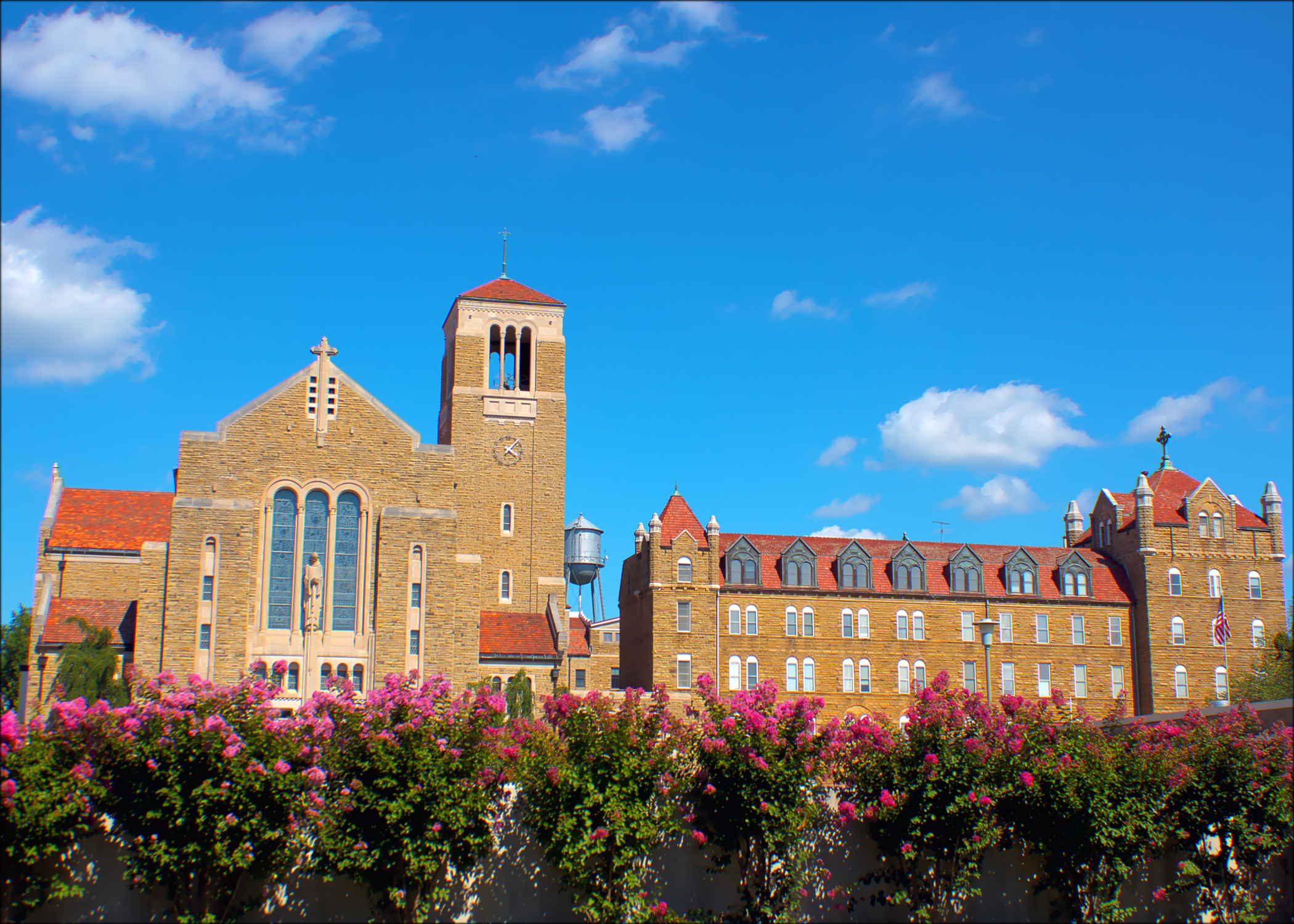 The Subiaco Academy in Subiaco, AR.